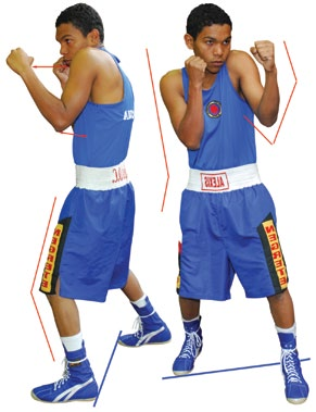 boxing